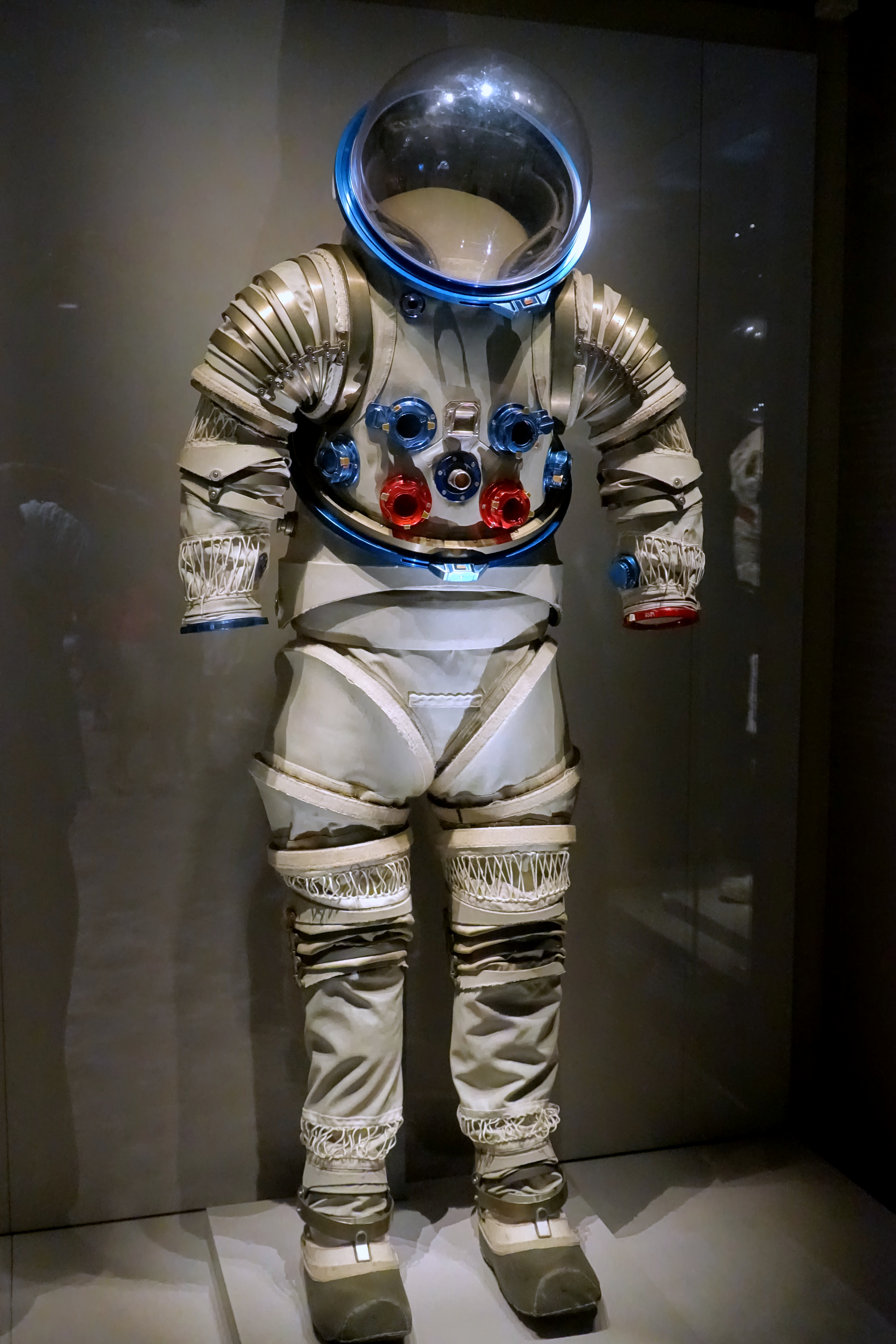 Exhibit at the Kennedy Space Center - Cape Canaveral, Florida, USA.